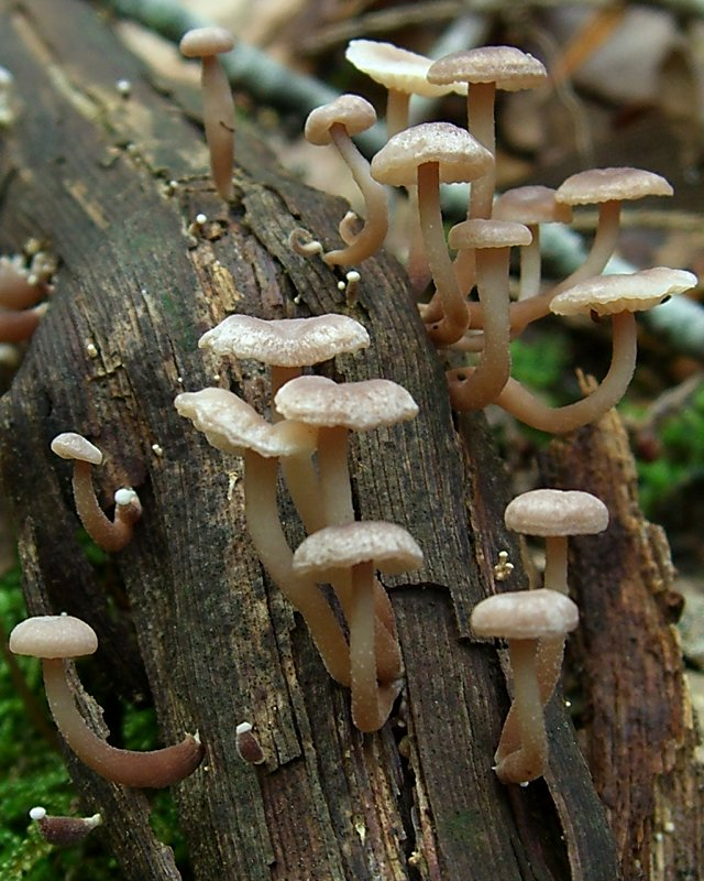 Scientific Name: Marasmius prasiosmus Common Name: Garlic Mushroom Certainty: not sure (notes) Location: Southern Appalachians; Smokies; CabinCove Date: 20060627